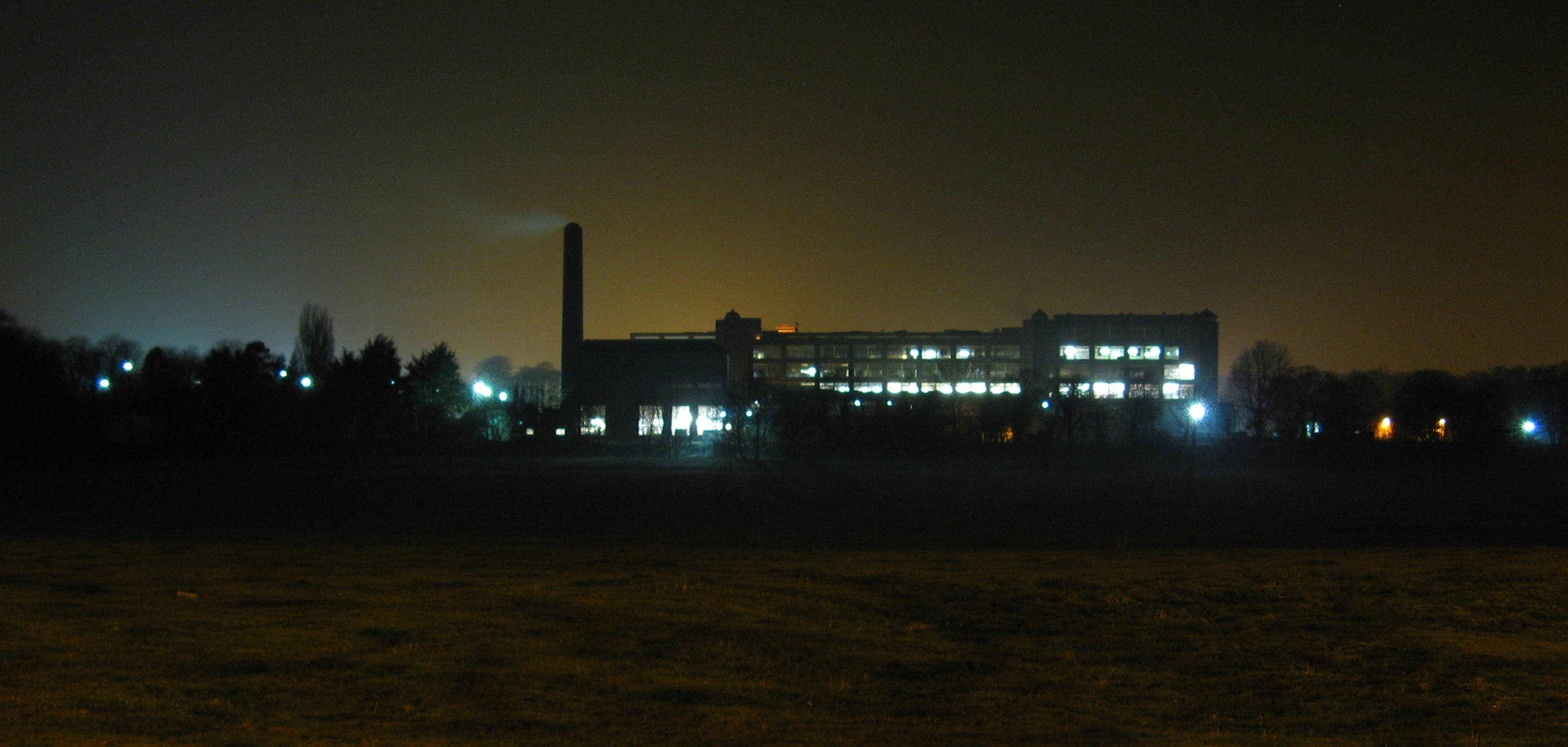 Cadbury's Somerdale Factory, Keynsham, east side at night from road. Photo taken during the last month of the factory's operation.